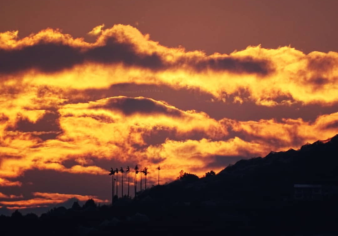 Mesmerising view after sun set.